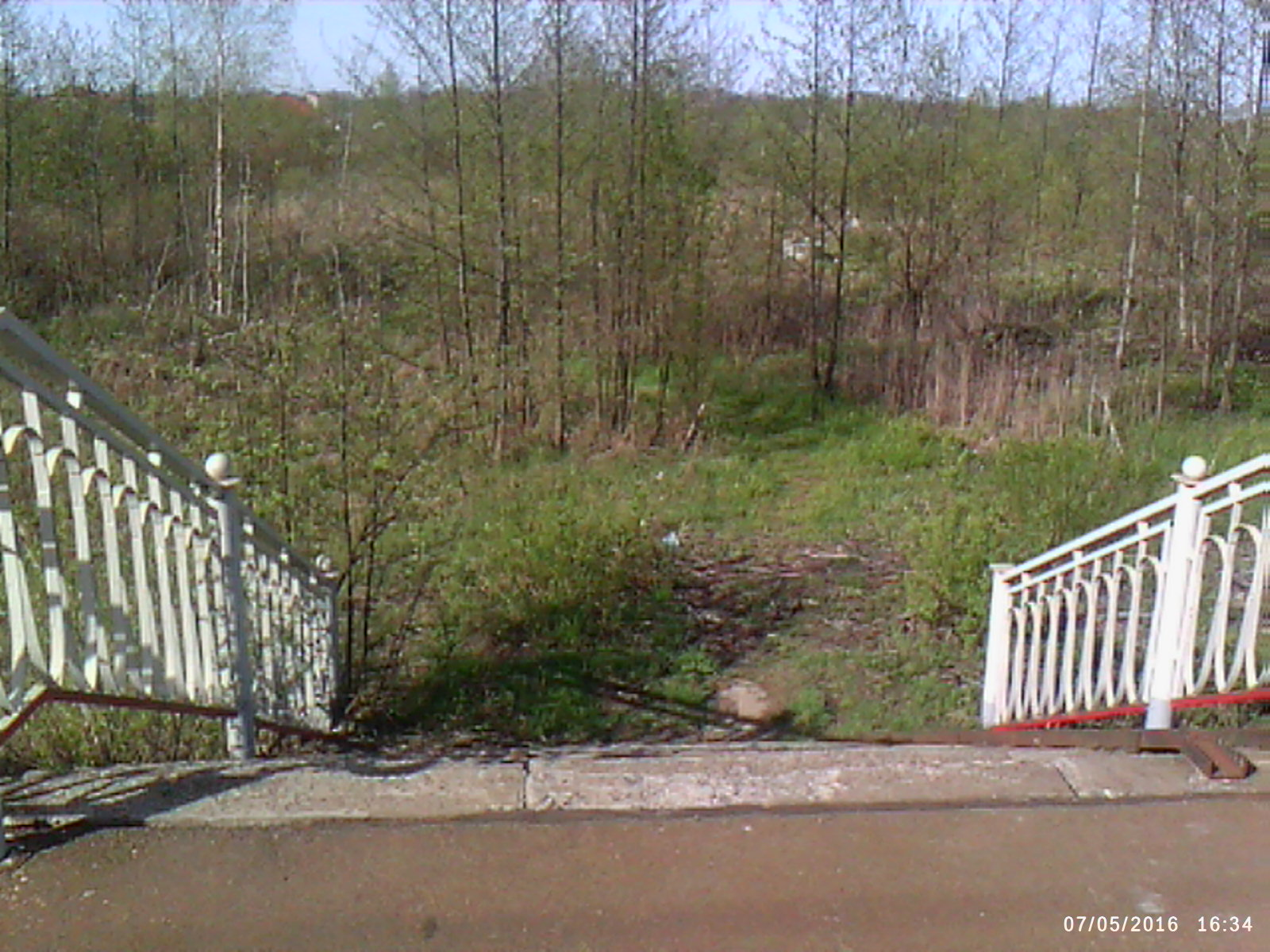 The railway platform Krasnye Zori 3